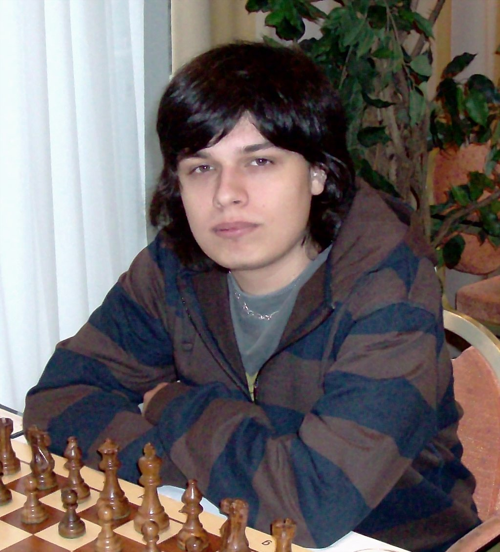 Viktor Erdős, chess grandmaster from Hungary